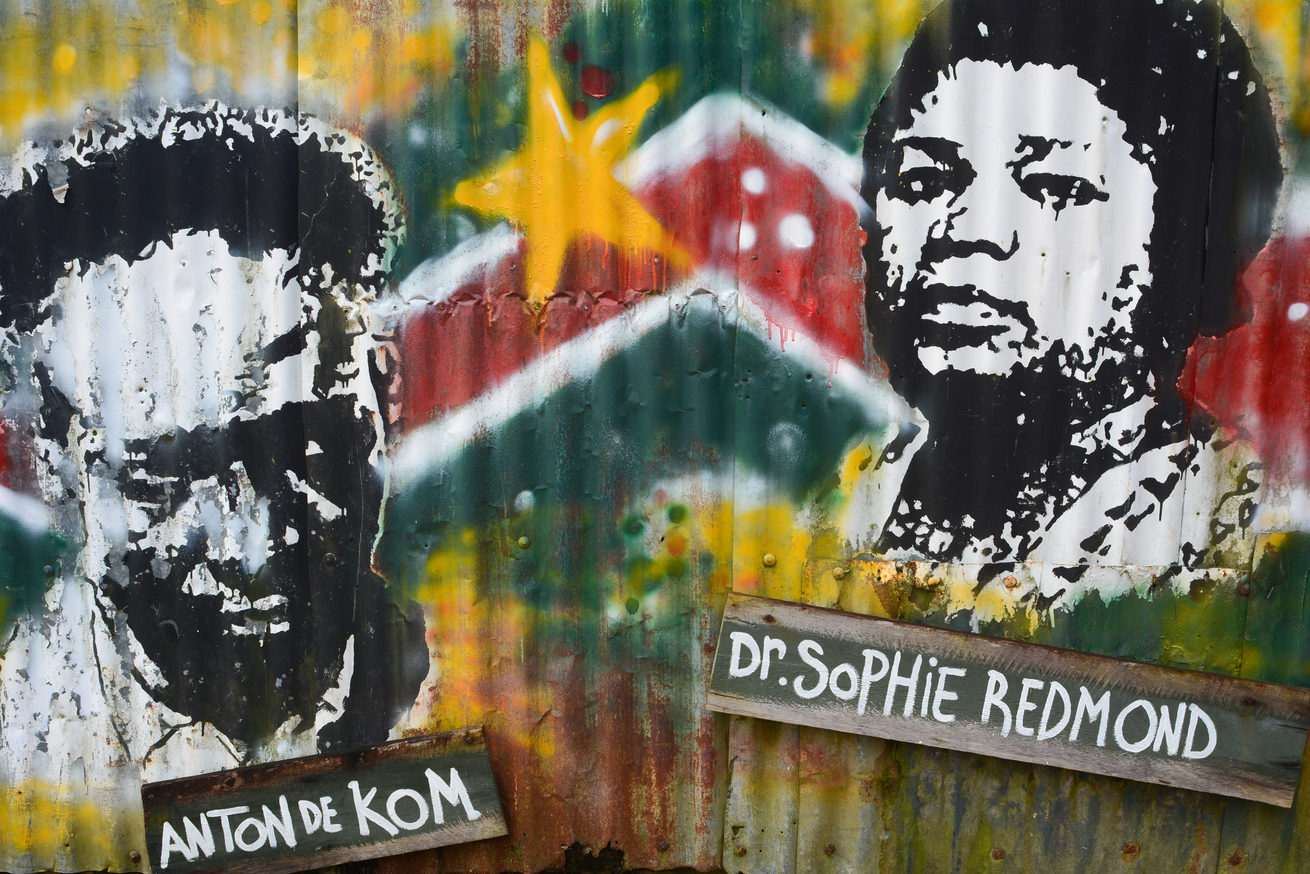 Upper Suriname River, Suriname